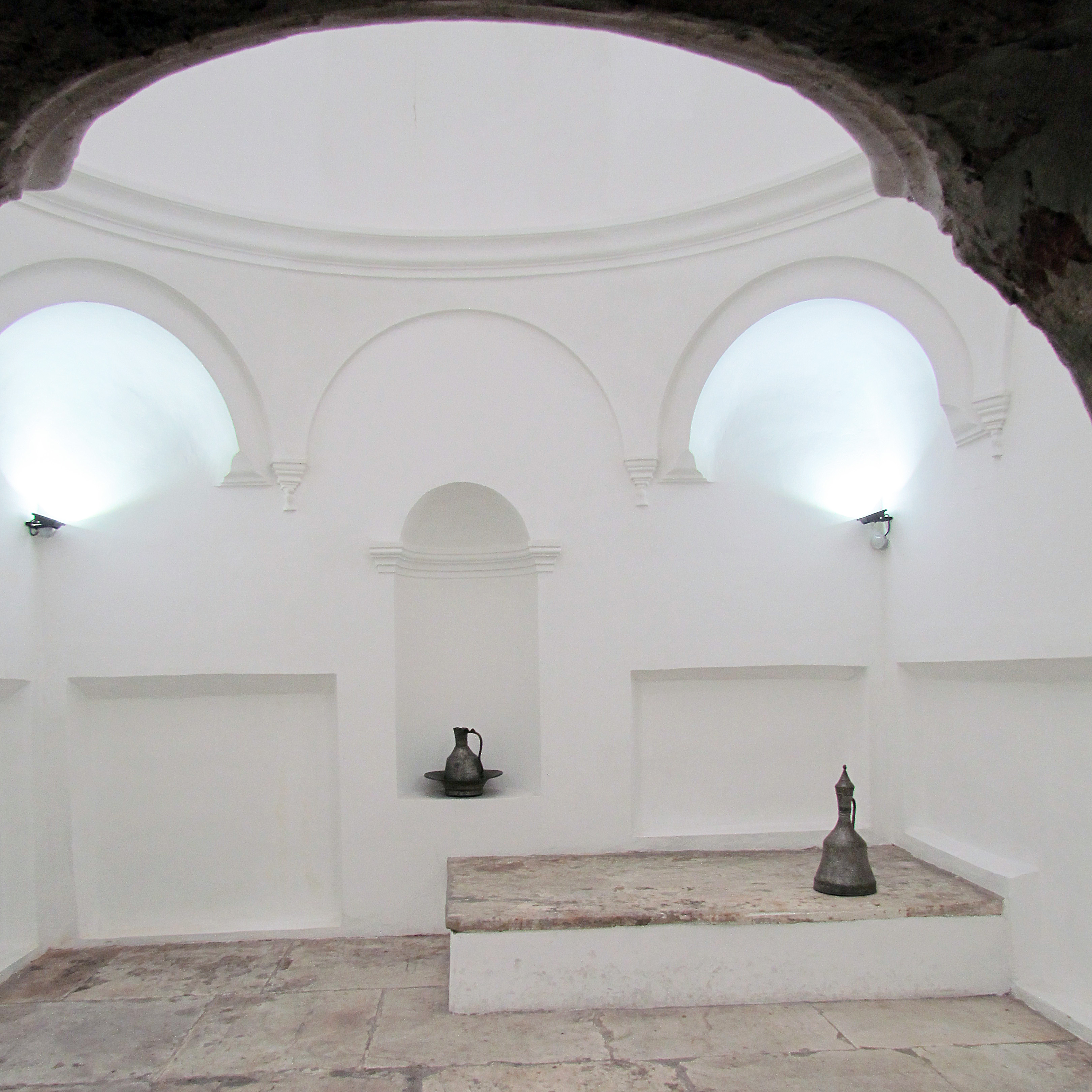 Turkish bath at princess Ljubica Obrenovic konak, Belgrade.